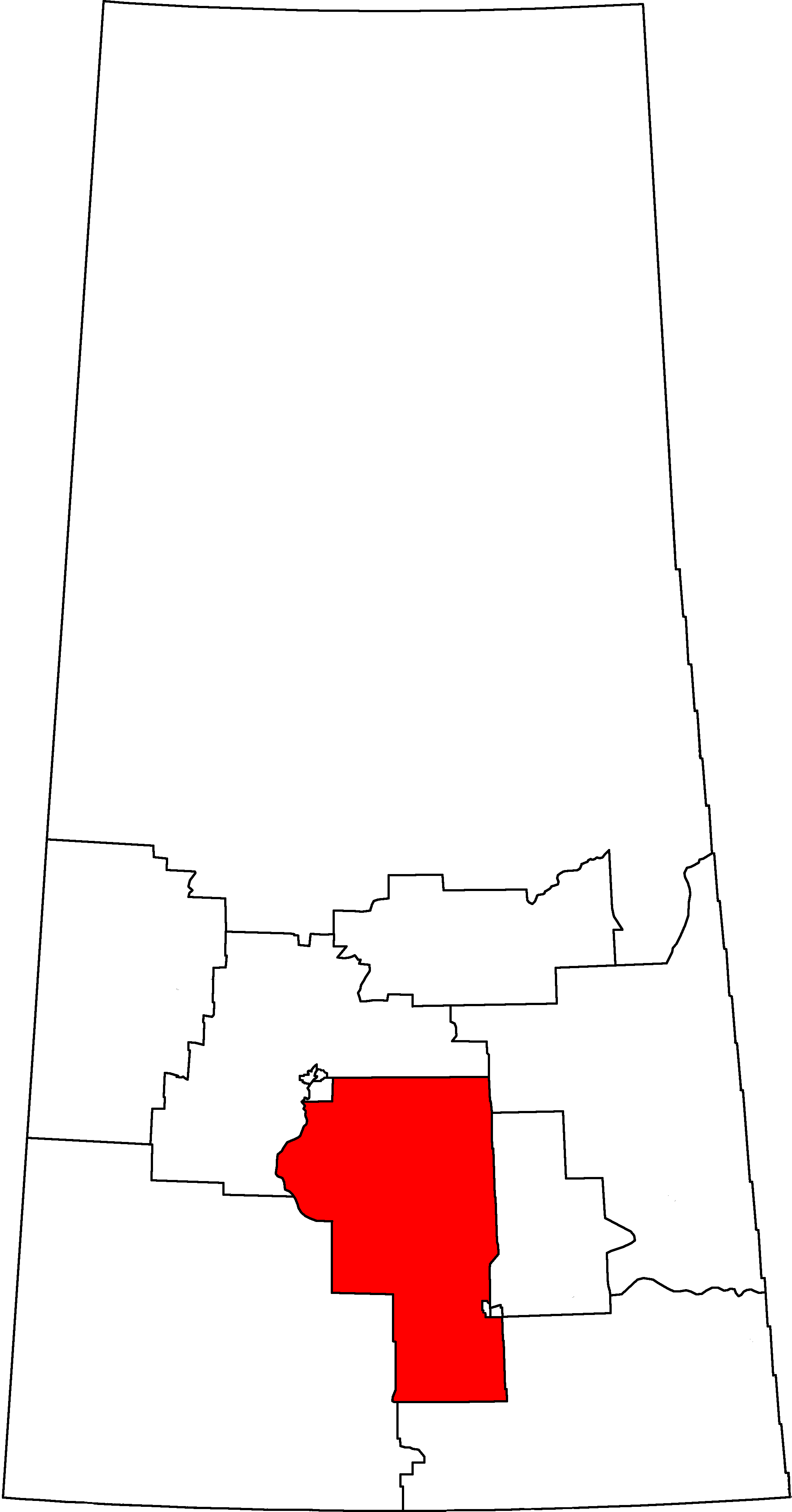 Federal Electoral District in Saskatchewan, Canada as of the 2013 Representation Order.